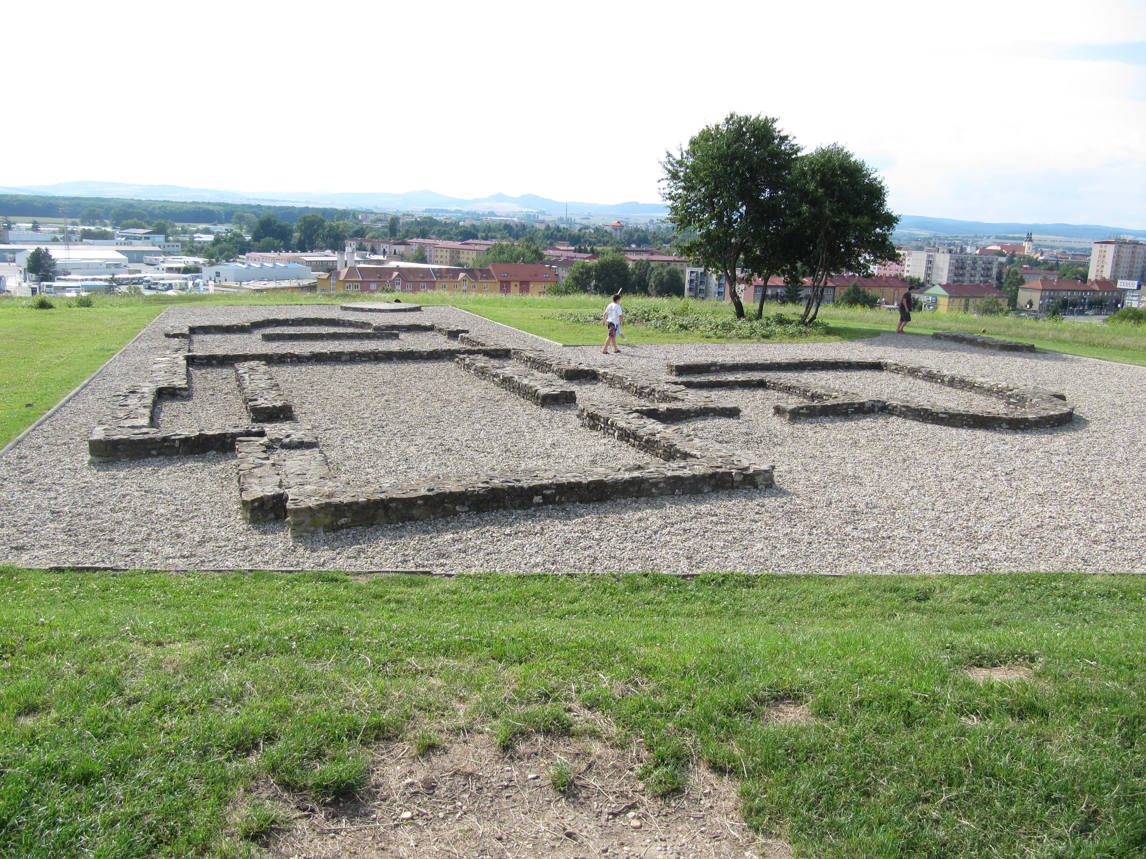 Uherské Hradiště, Czech Republic. Archeological locality Sady "Špitálky".